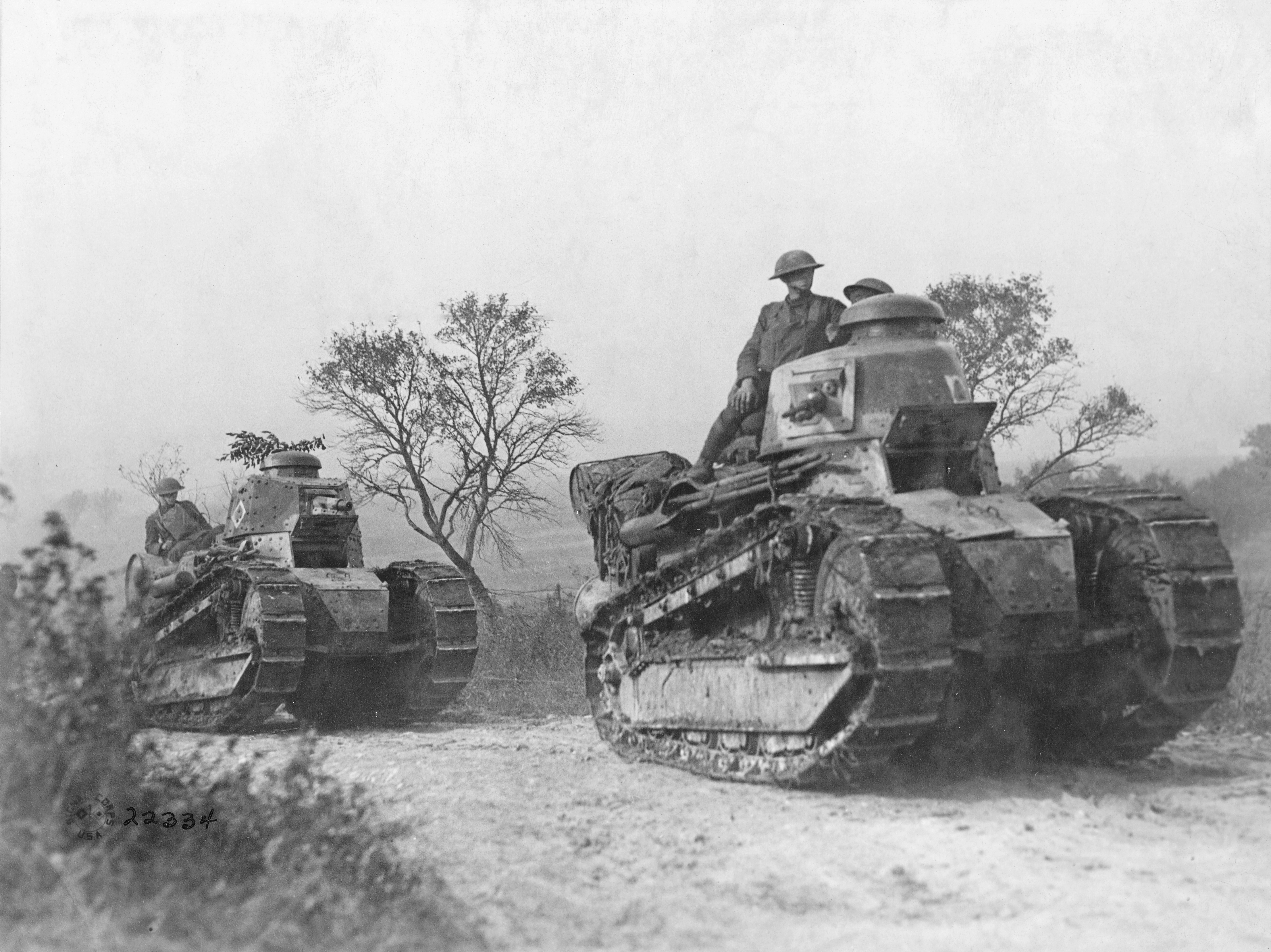 General notes: Use War and Conflict Number 630 when ordering a reproduction or requesting information about this image.